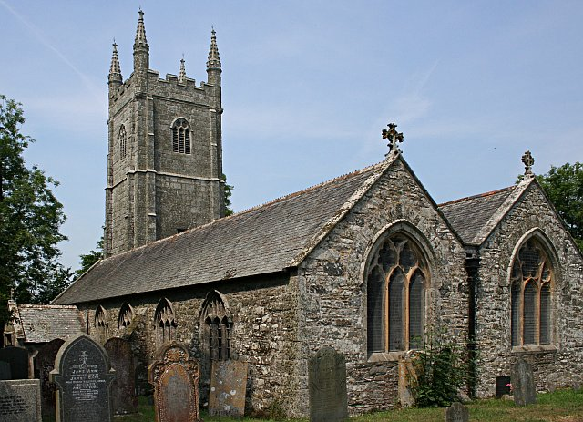 Ladock Church. First dedicated in 1268 this church underwent its last major restoration in 1864.